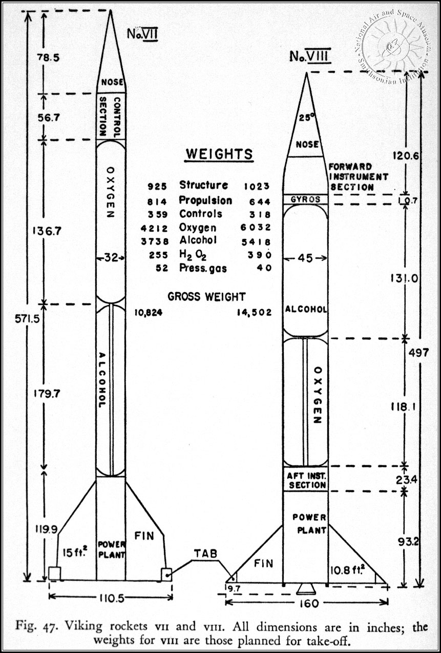 Viking rocket scheme.